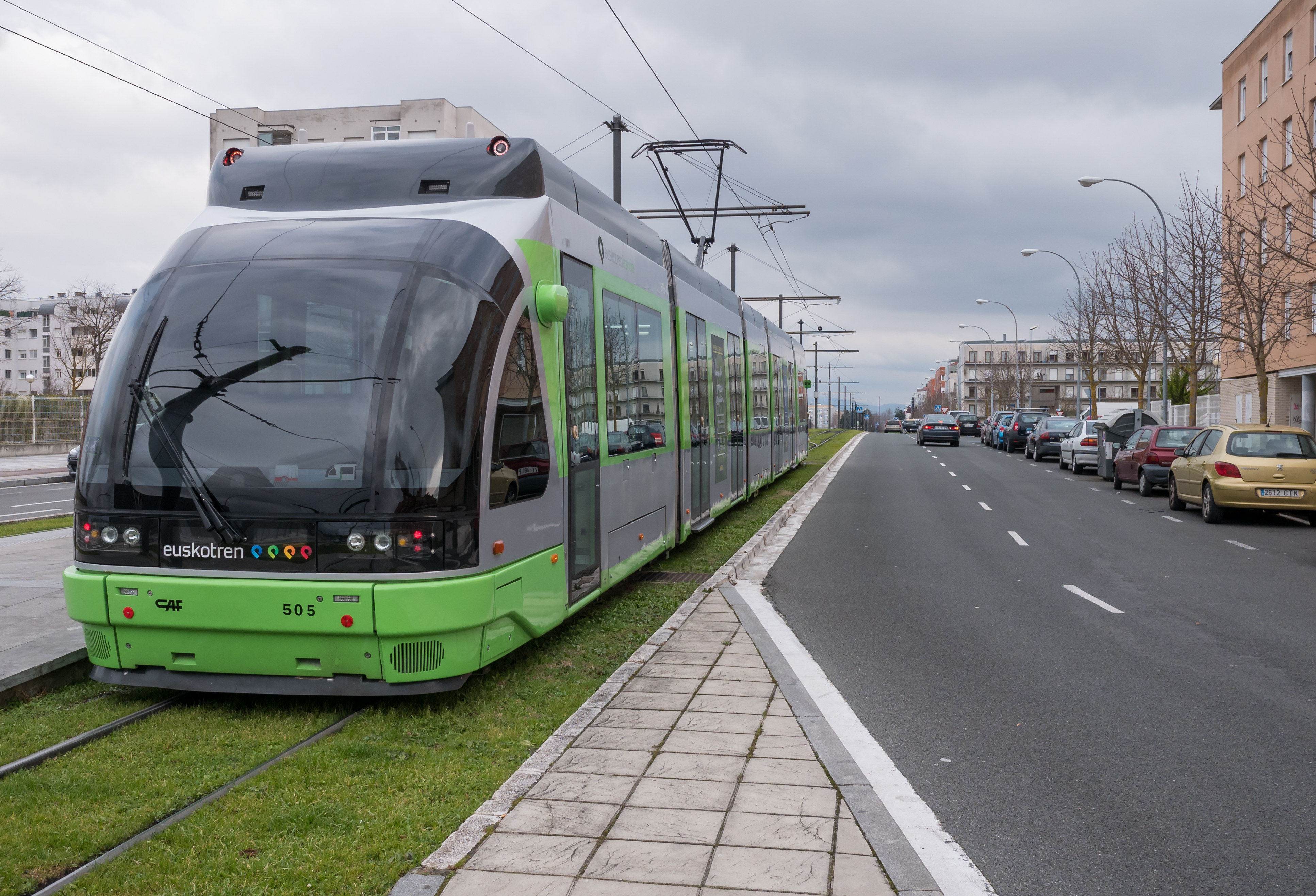 Last tram stop at Ibaiondo. Vitoria-Gasteiz, Basque Country, Spain